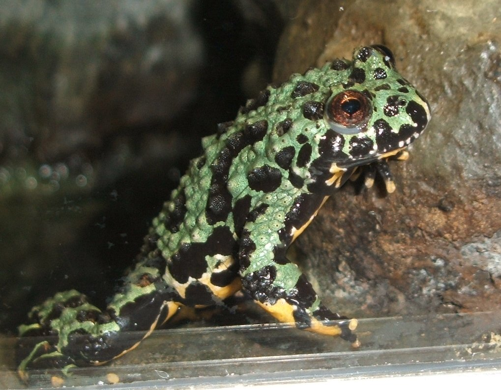 Fire-bellied toad (Bombina orientalis) at the American Museum of Natural History (New York City) in a special frog exhibit.